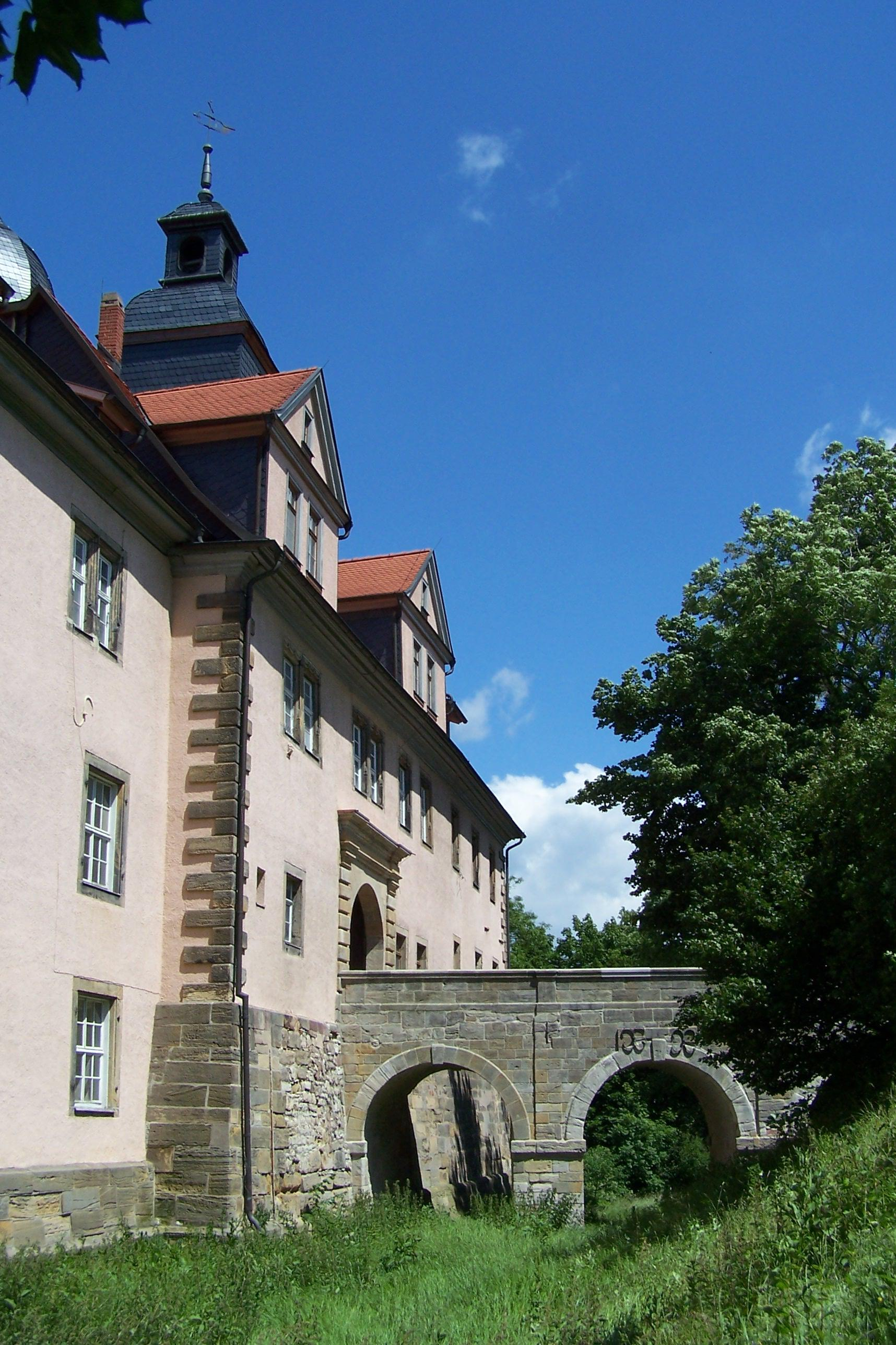 The bridge of Tenneberg castle.